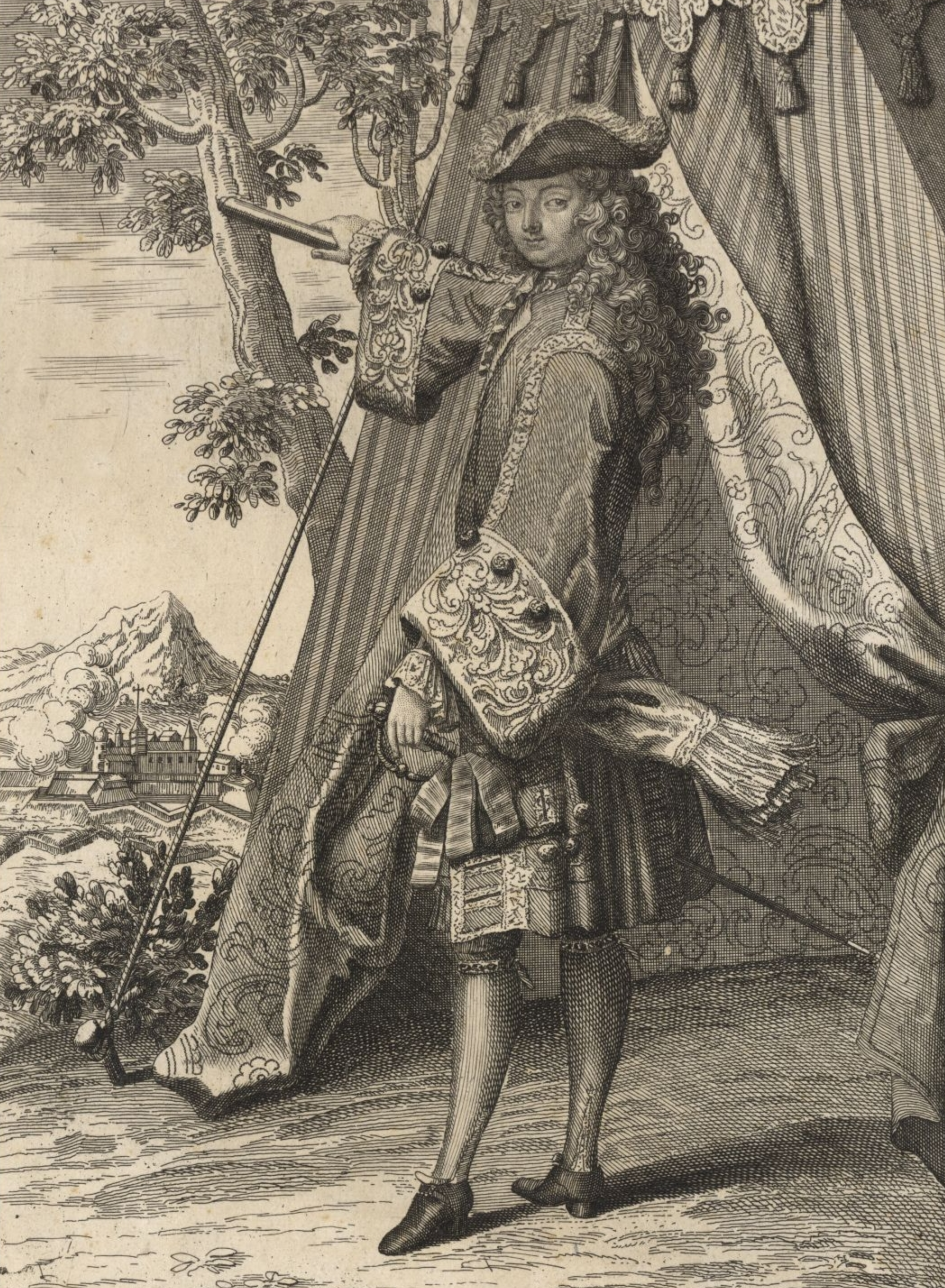 John, Prince of Brazil (future King John V of Portugal), c. 1706.